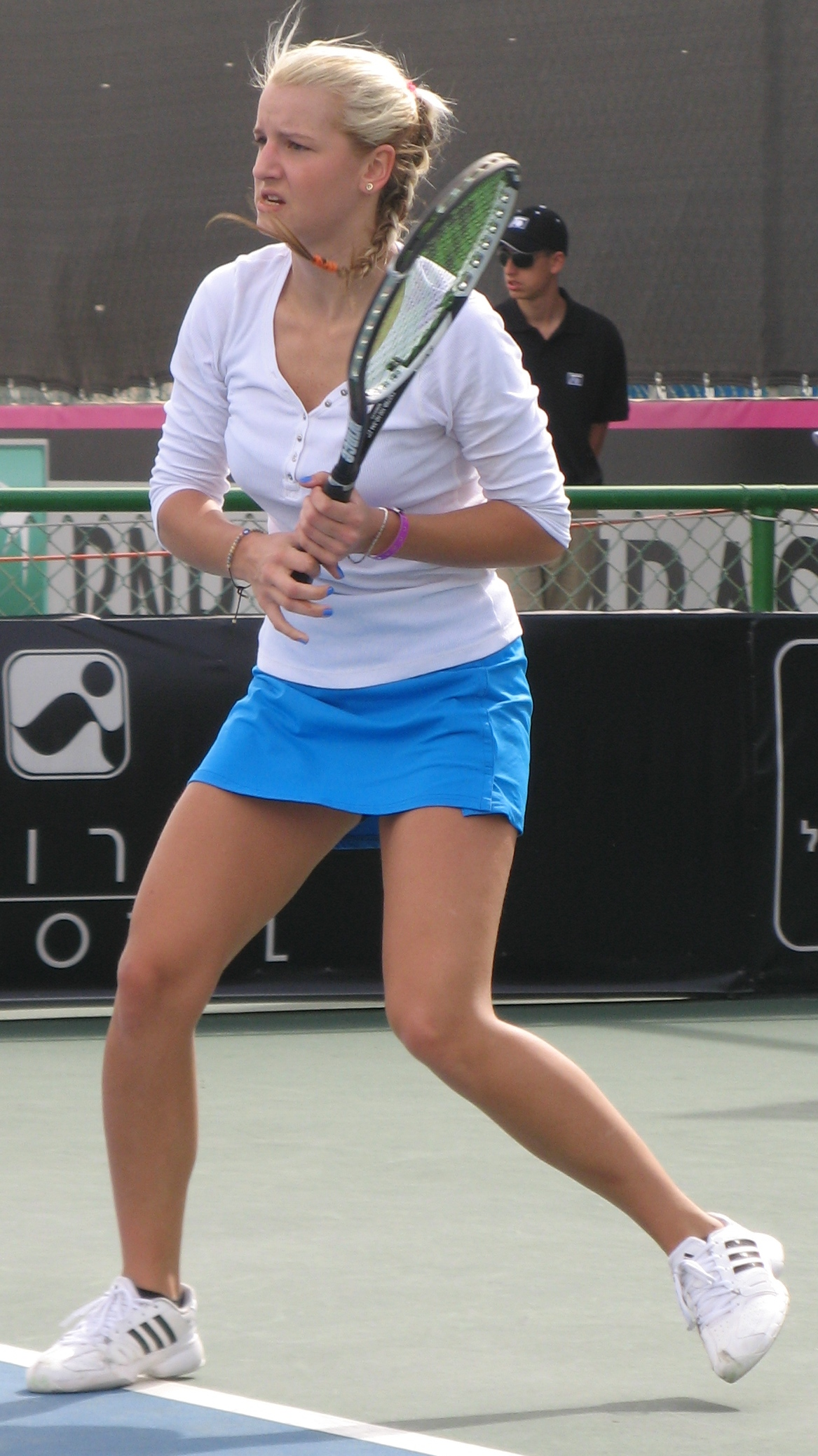 The tennis player Dea Herdzelas of Bosnia/Herzegovina during her match against Greta Arn of Hungary in the 3rd day of Fed Cup Group I 2013 Europe/ Africa in Eilat, Israel.